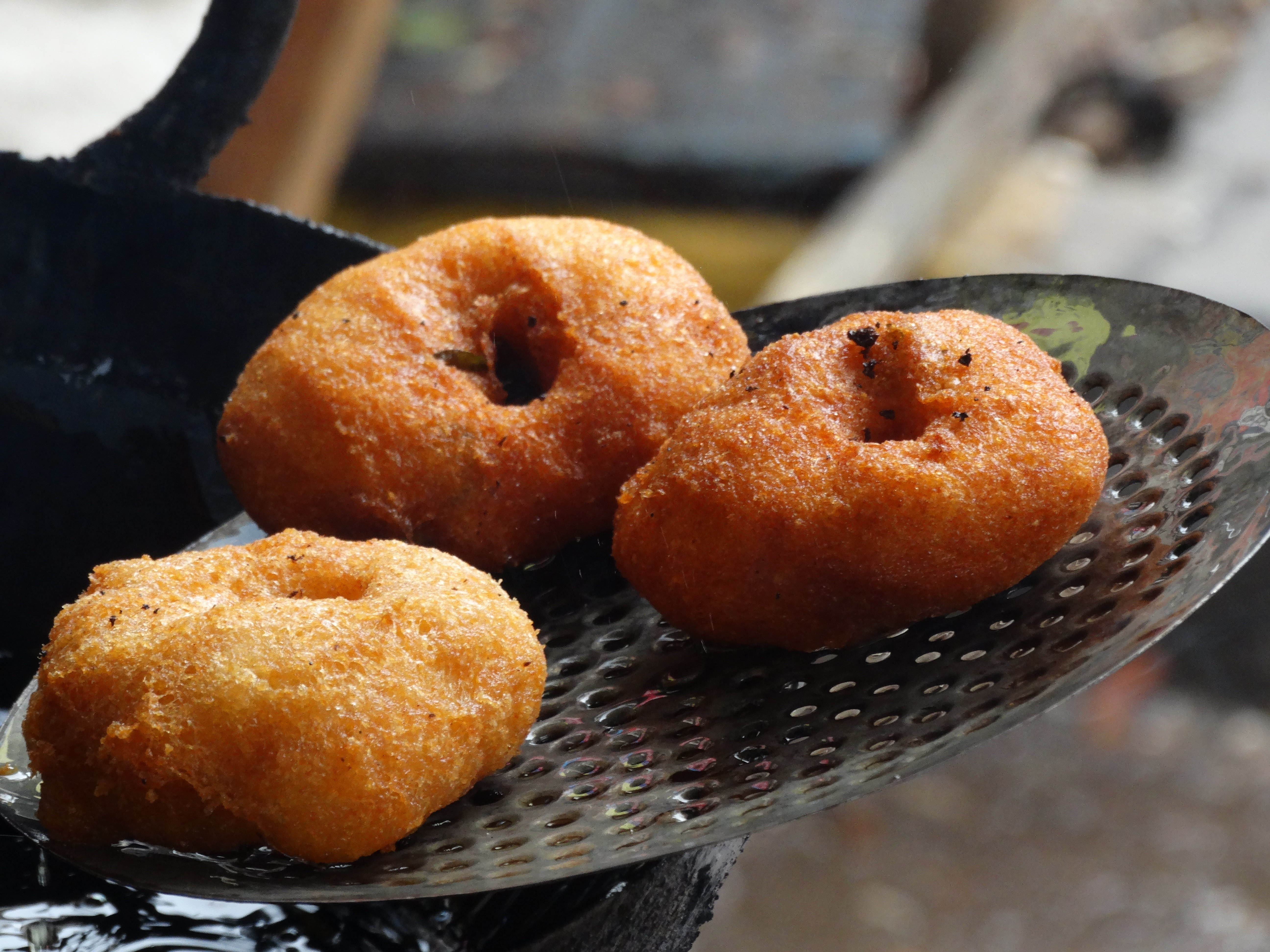 Medu Wada, a south indian fried snack, fresh out of the frying pan.